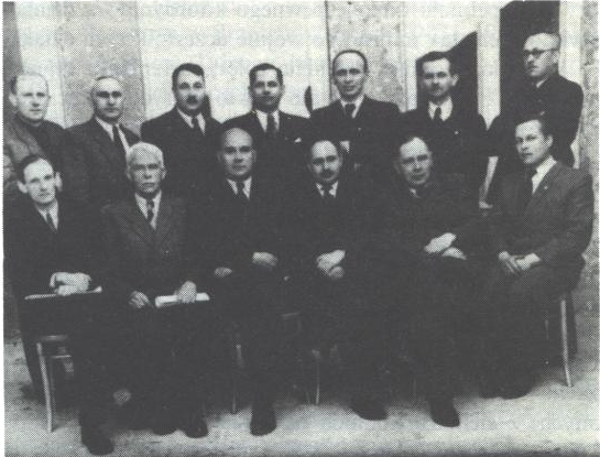 Leadership of the Secret Teaching Organization